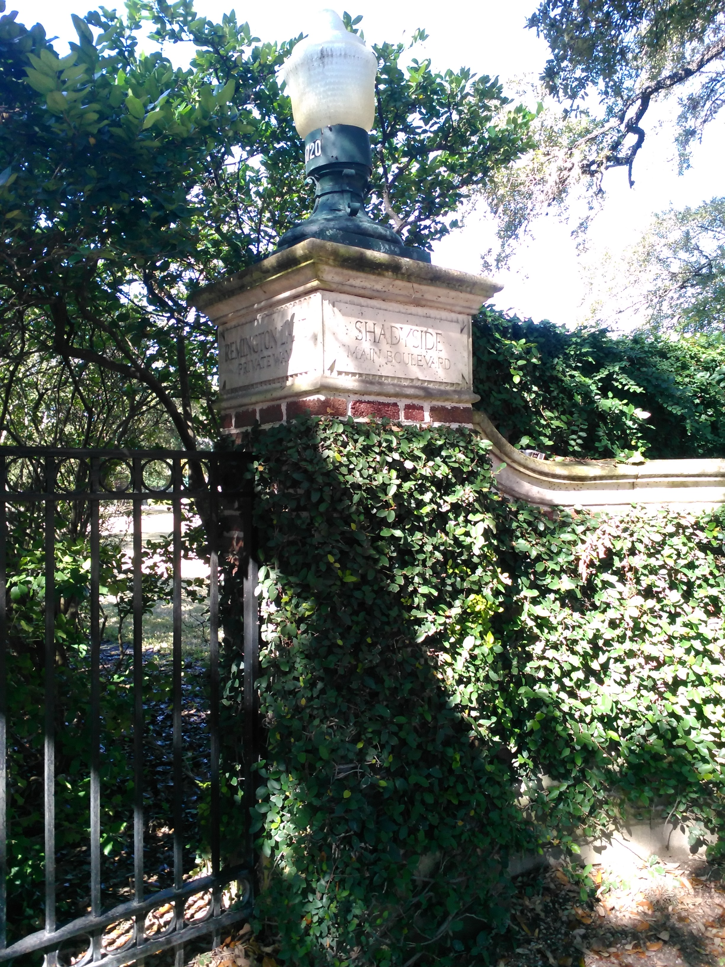 Shadyside Main at Remington entrance